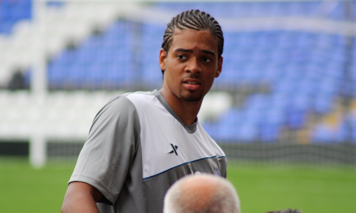 At Birmingham City open training session at St.Andrews' Stadium.